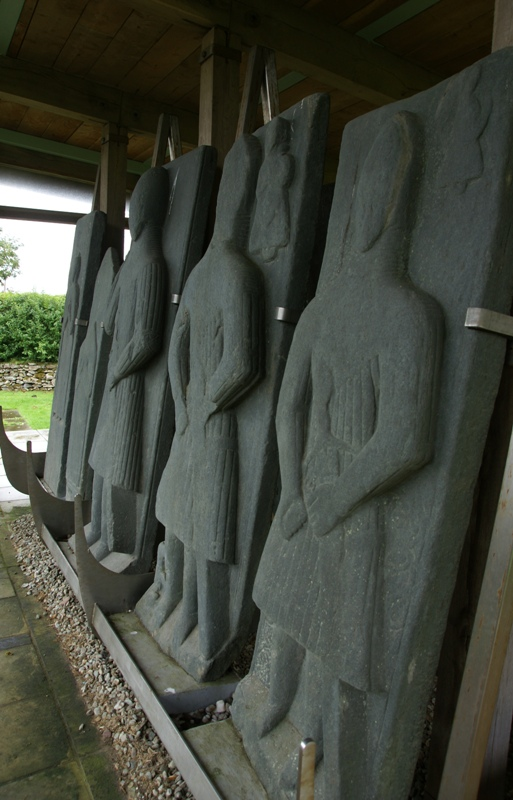 Saddell Abbey, Argyll and Bute, Scotland - effigies (Iona school)